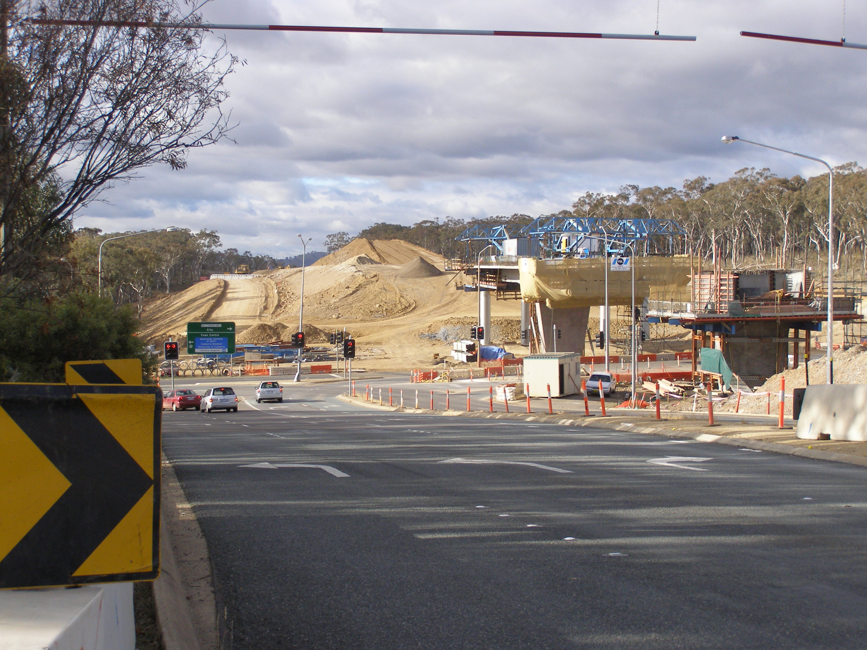 Taken by User:Ben McCarthy on 3/7/06